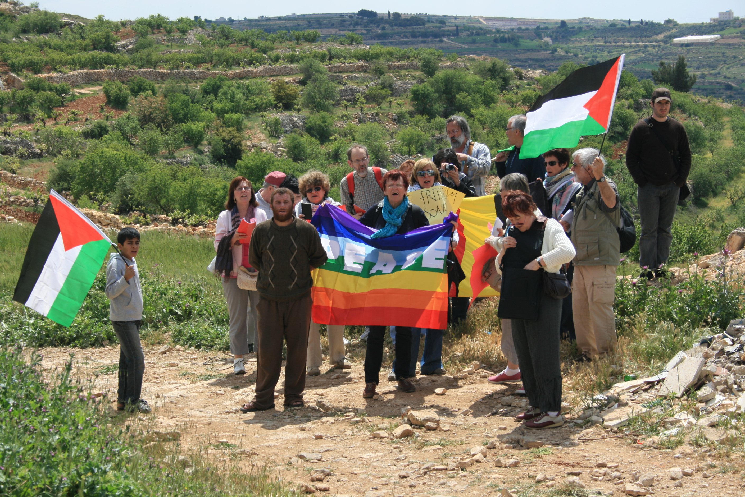 Demonstration against land confiscation, Bait Ummar, December 2011